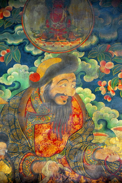 Fresco representing Güshi Khan, In Jokhang temple, Tibet.